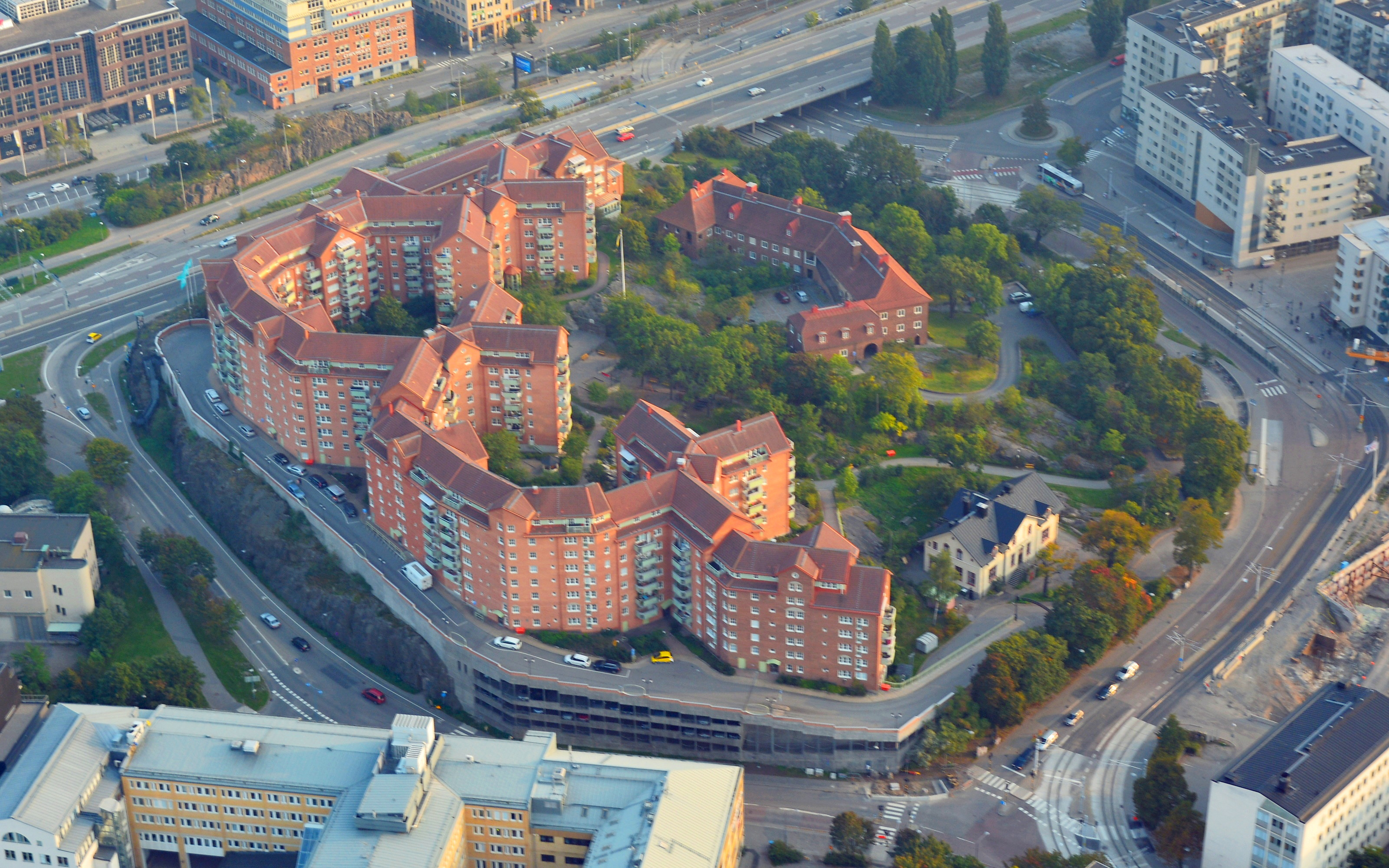 Liljeholmsberget in Liljeholmen in southern Stockholm, Sweden.